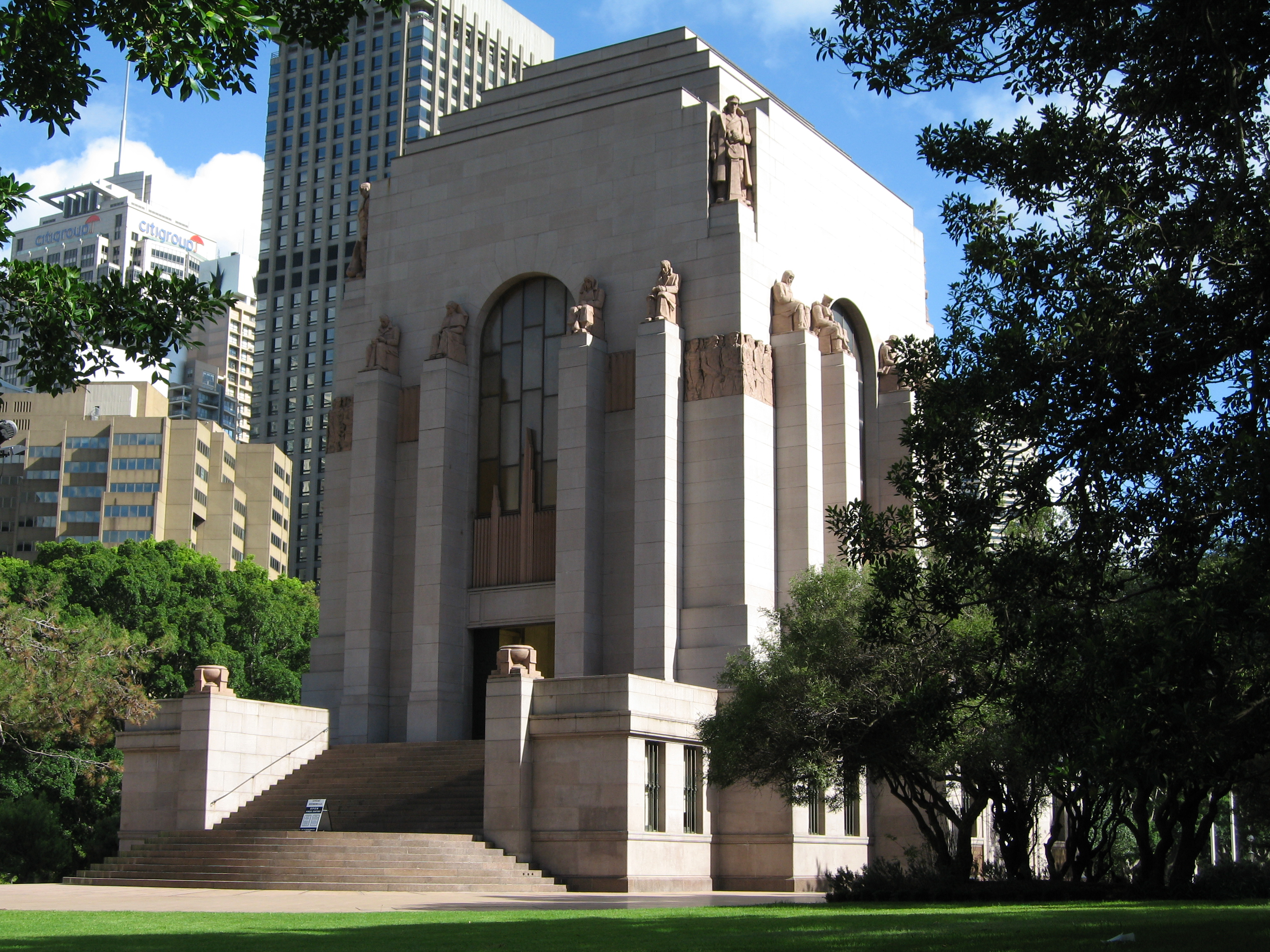 ANZAC War Memorial, Hyde Park, Sydney, Australia.